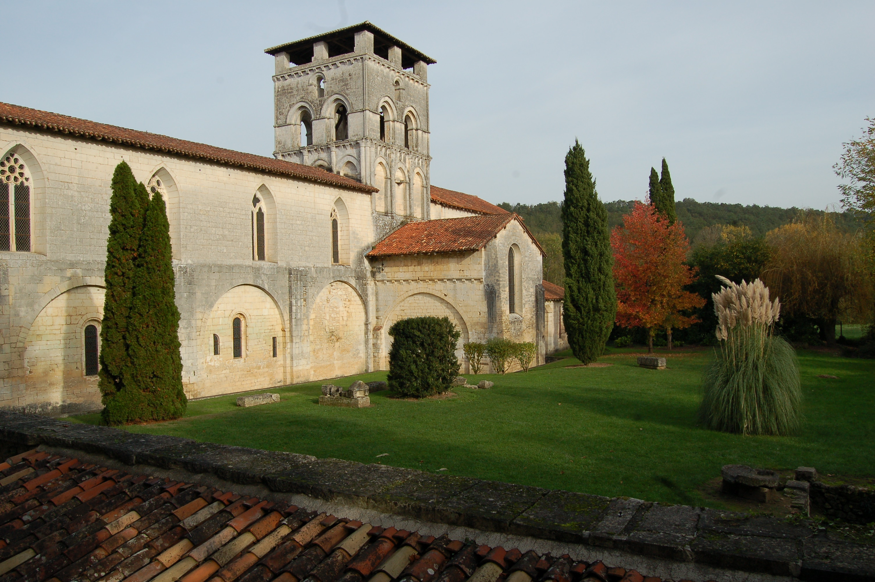 The Abbey in Chancelade (24650), Dordogne(24), France.